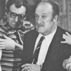 Adolfo Linvel (right) y Cacho Espíndola (left) in My Girlfriend the... [Queen Drag] (1975), directed by Enrique Cahen Salaberry. Found on Website "Acceder" (access) Catalog, Cultural Contents Network of Cultural Heritage, Ministry of Culture, Government of the City of Buenos Aires.